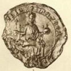 Manfred of Sicily